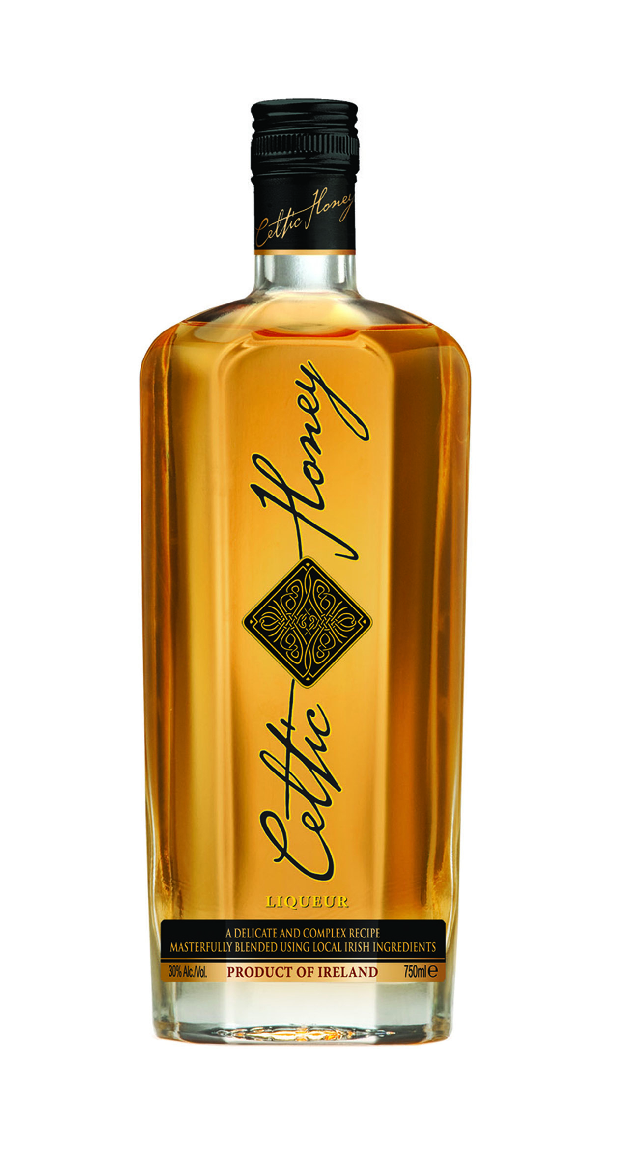 Celtic Honey Irish Liqueur bottle shot